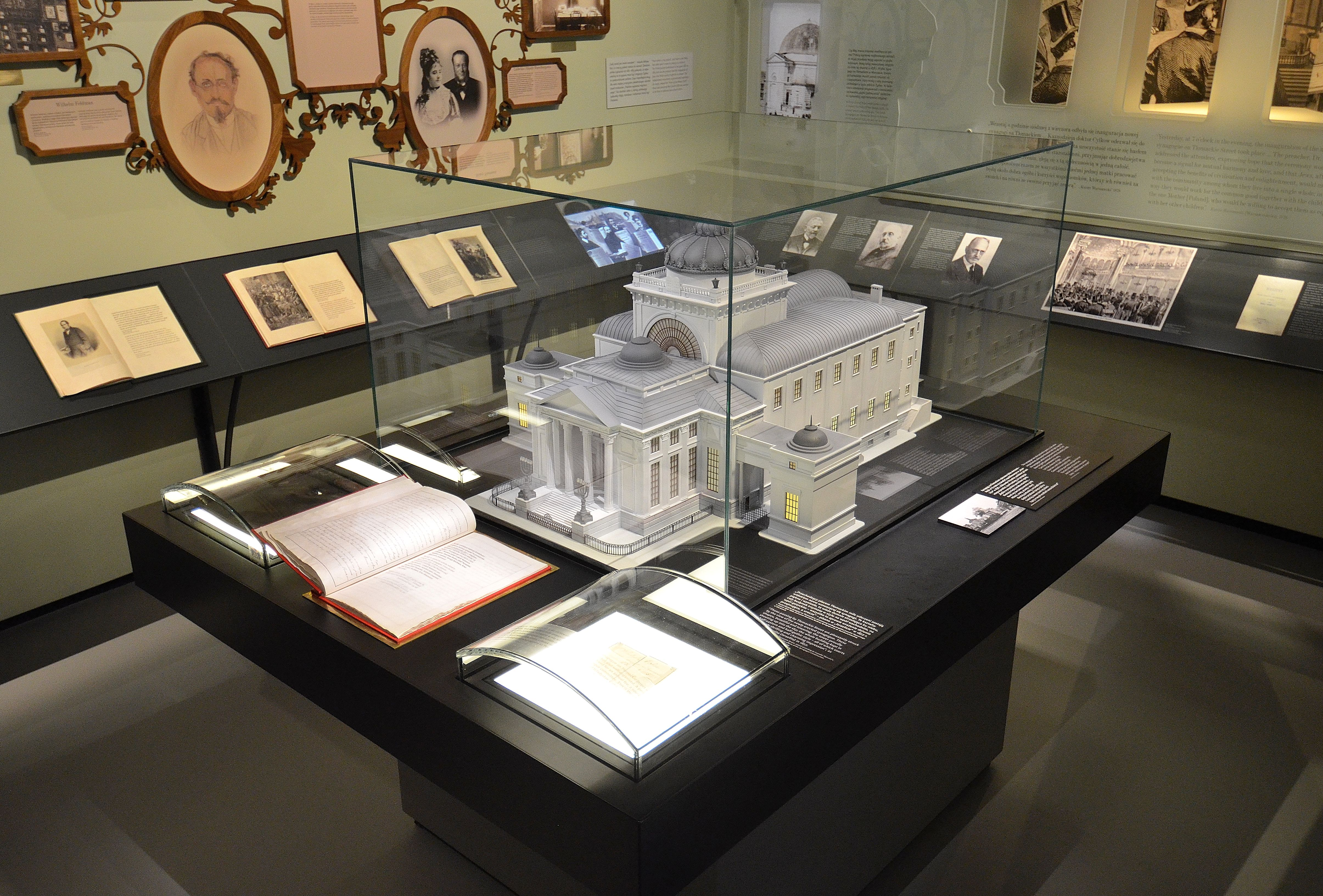 Core exhibition at the Museum of the History of Polish Jews. Replica od Great Synagogue in Warsaw